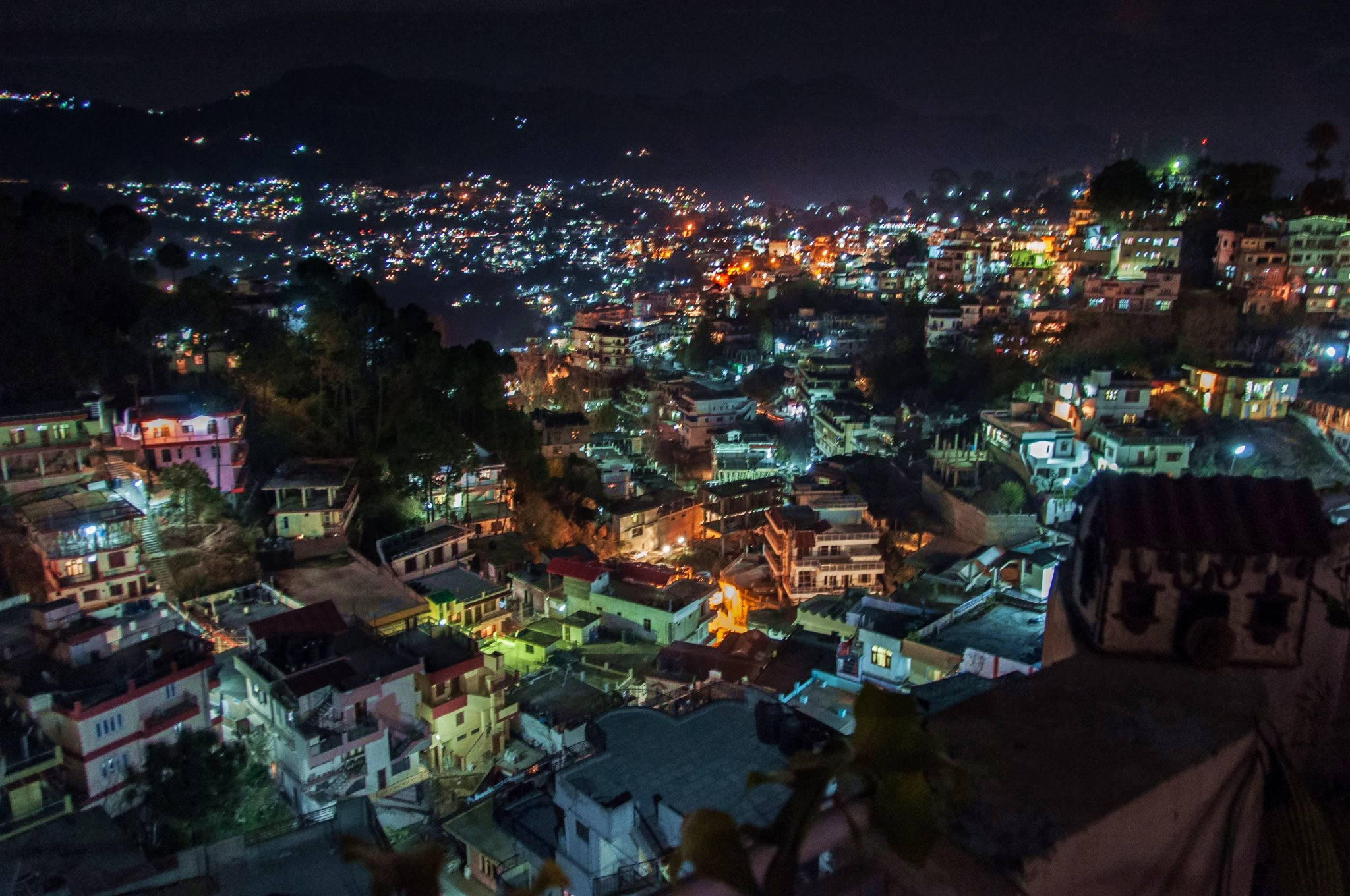 Twinkling hills of solan city at night